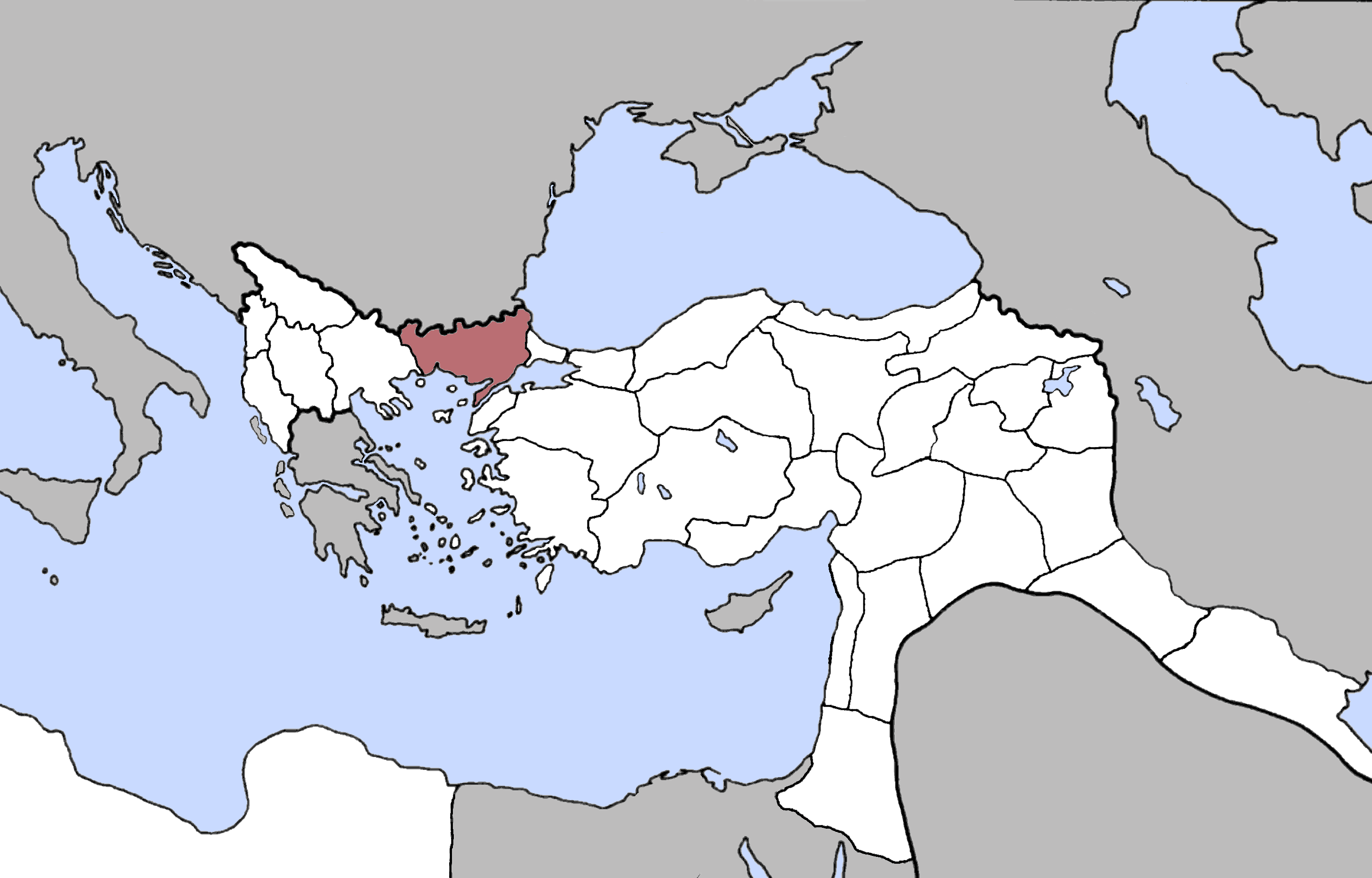 XY Vilayet, Ottoman Empire (1900). Source: An Economic and Social History of the Ottoman Empire, Volume 2 at Google Books By Suraiya Faroqhi, Bruce McGowan, Donald Quataert, Sevket Pamuk